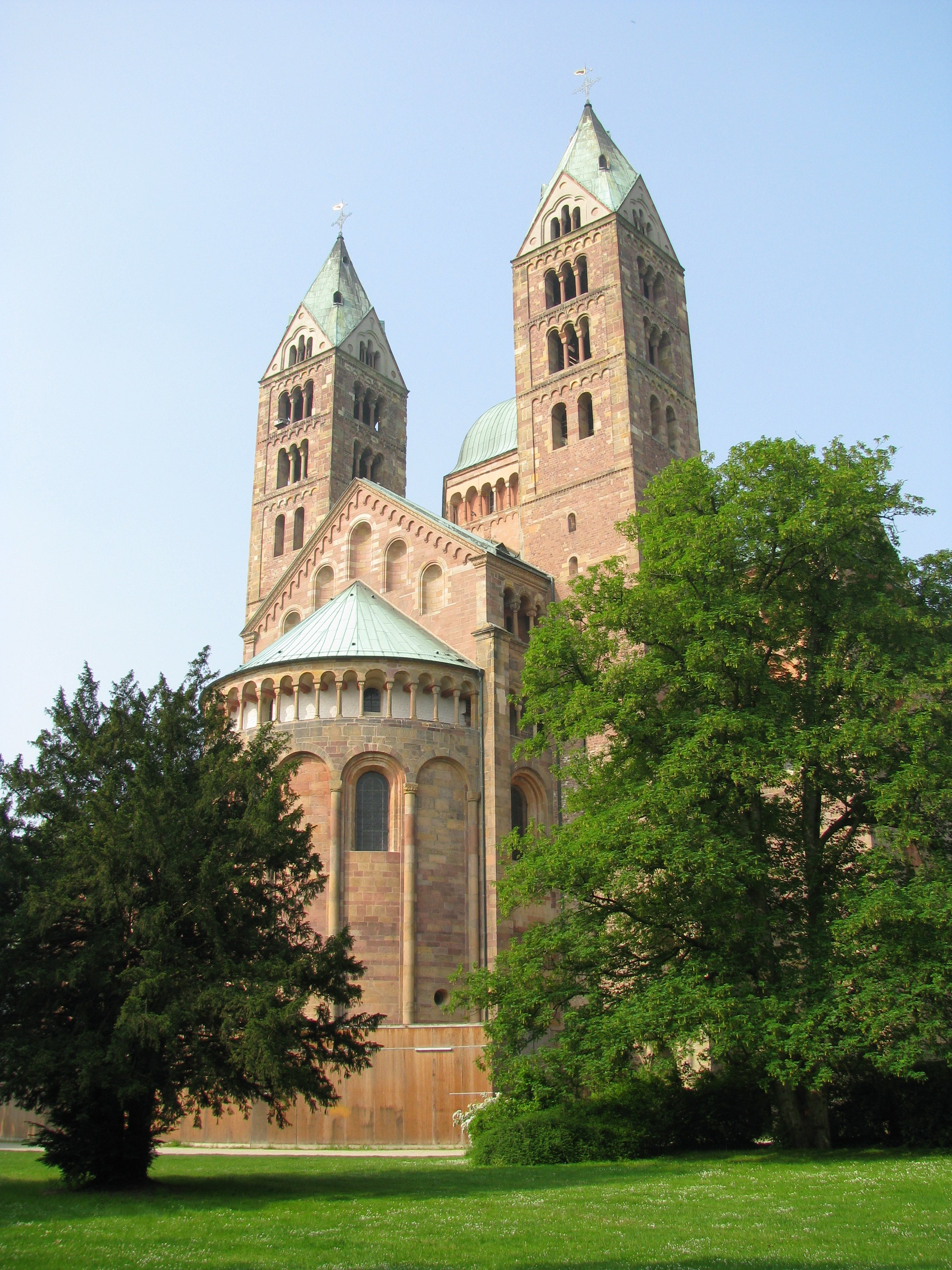 Speyer Cathedral seen from the northeast